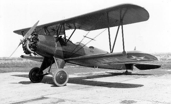 U. S. Air Force Photo